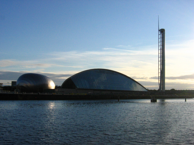 The Science Centre at the river Clyde, Glasgow, Scotland.